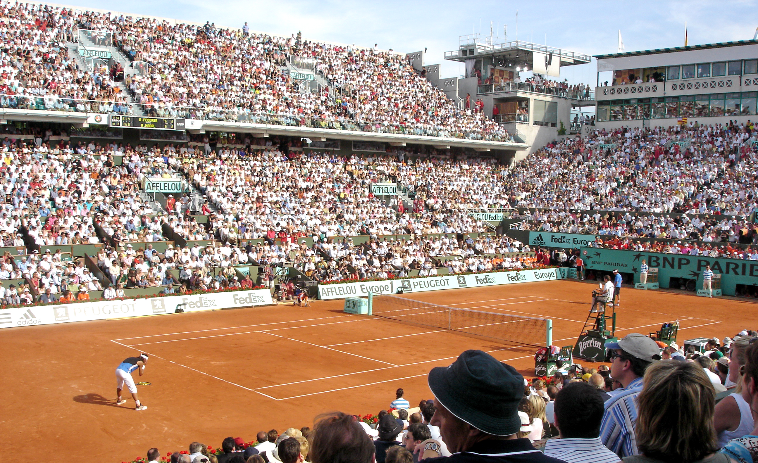 Rafael Nadal prepares to receive Roger Federer's serve during the final of the 2006 French Open